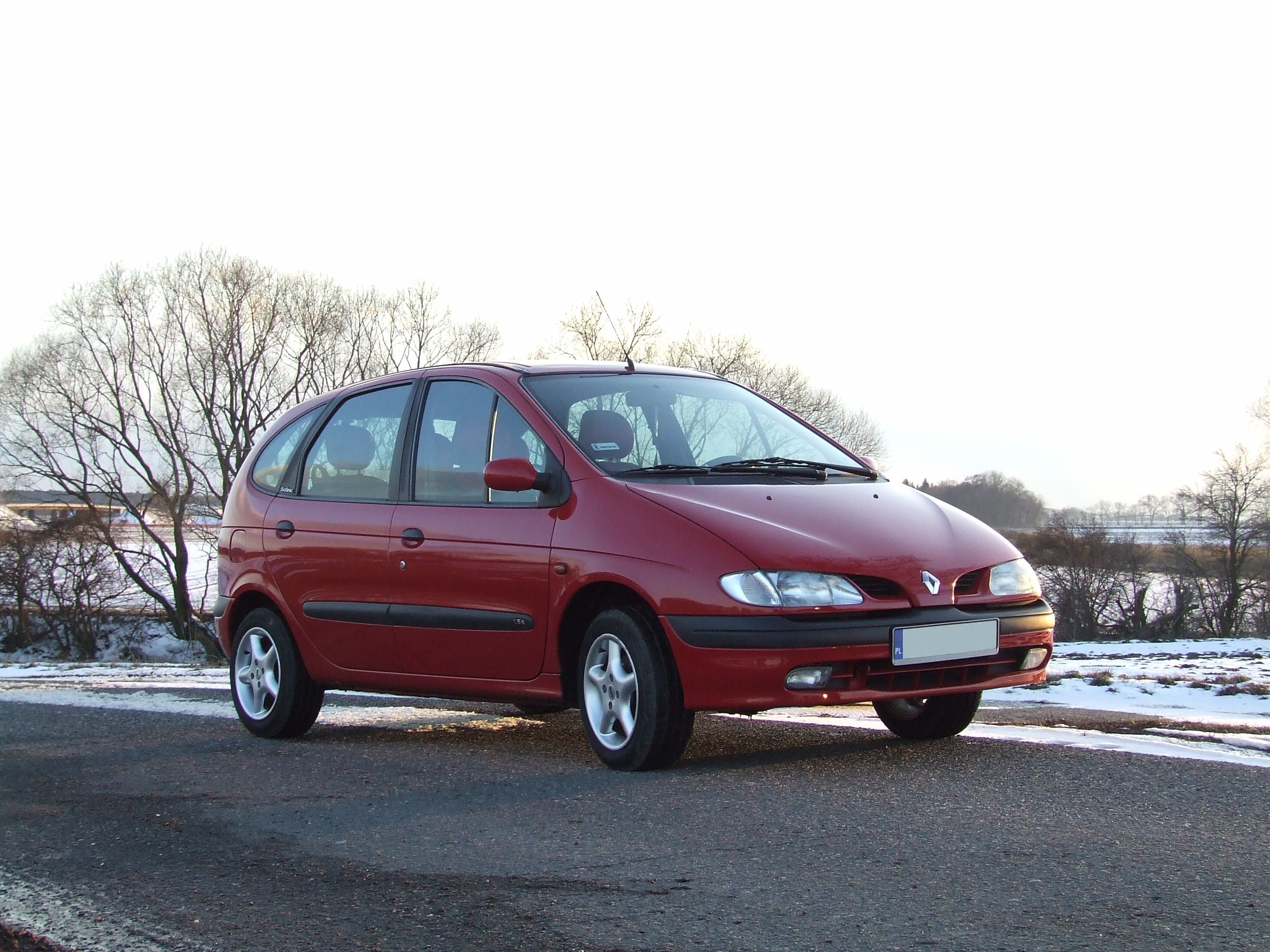 Renault Scénic I 1997